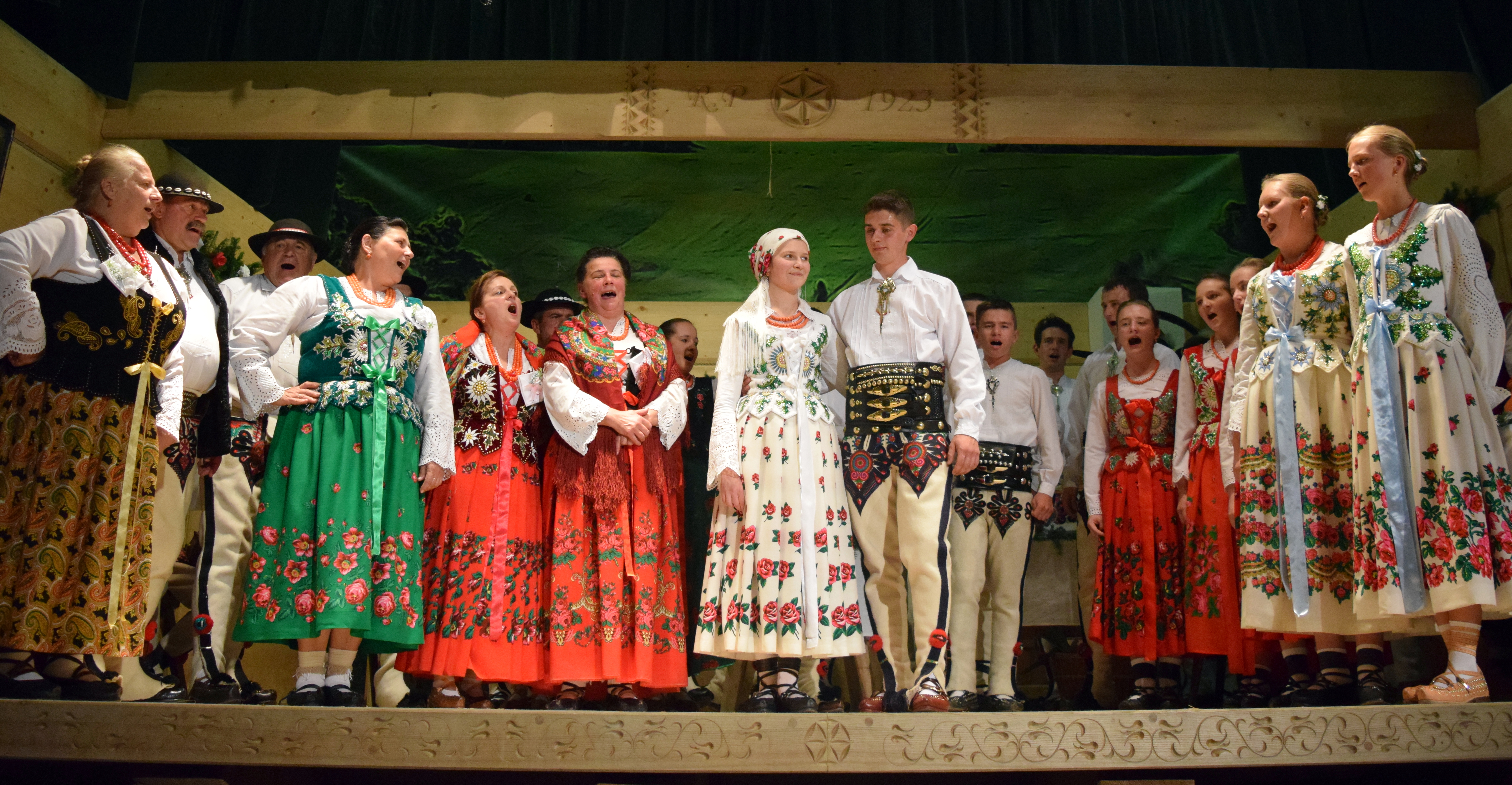 "Gorals' Wedding" folk performance at Dom Ludowy Theatre in Bukowina Tatrzańska